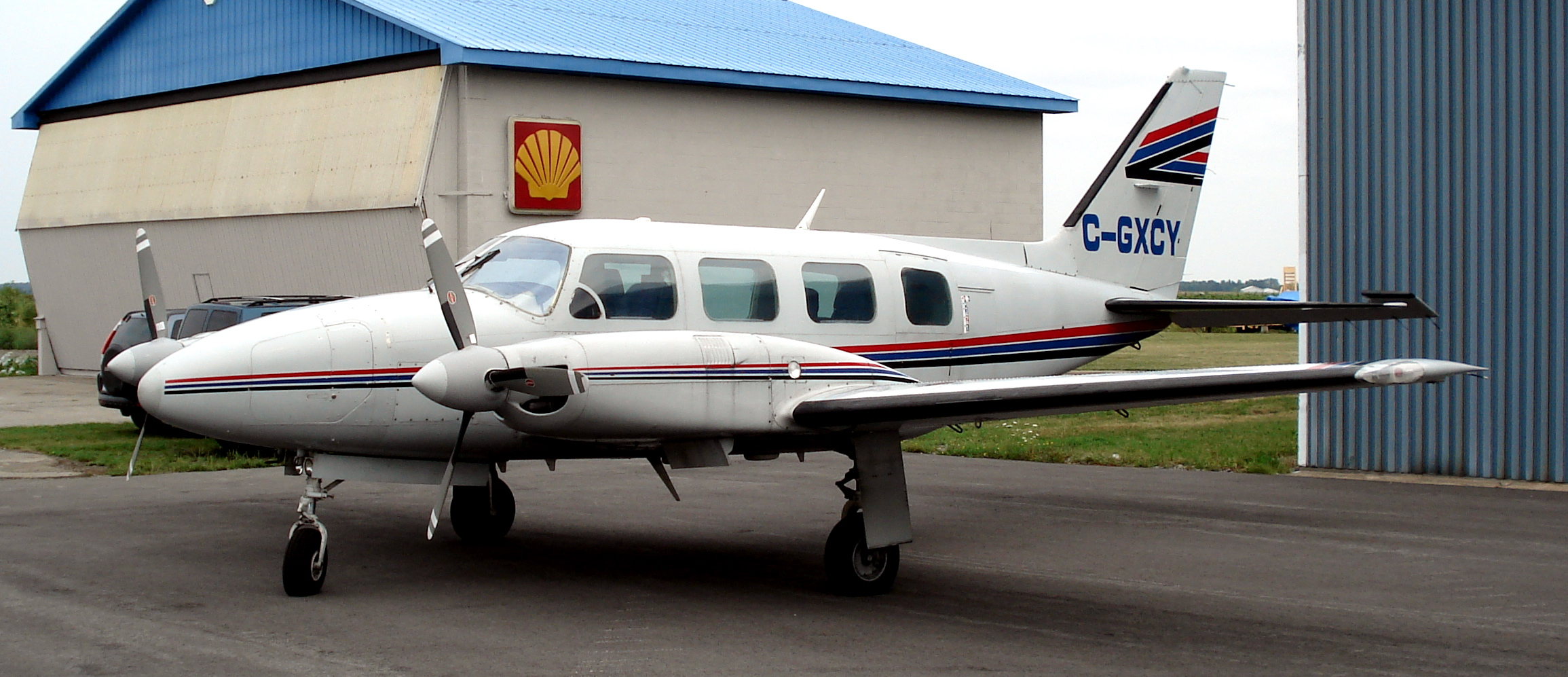 Piper PA-31 Navajo (C-GXCY). Photo taken on August 26, 2006 at St. Catharines Airport. Source: Photo by me, User:Balcer.